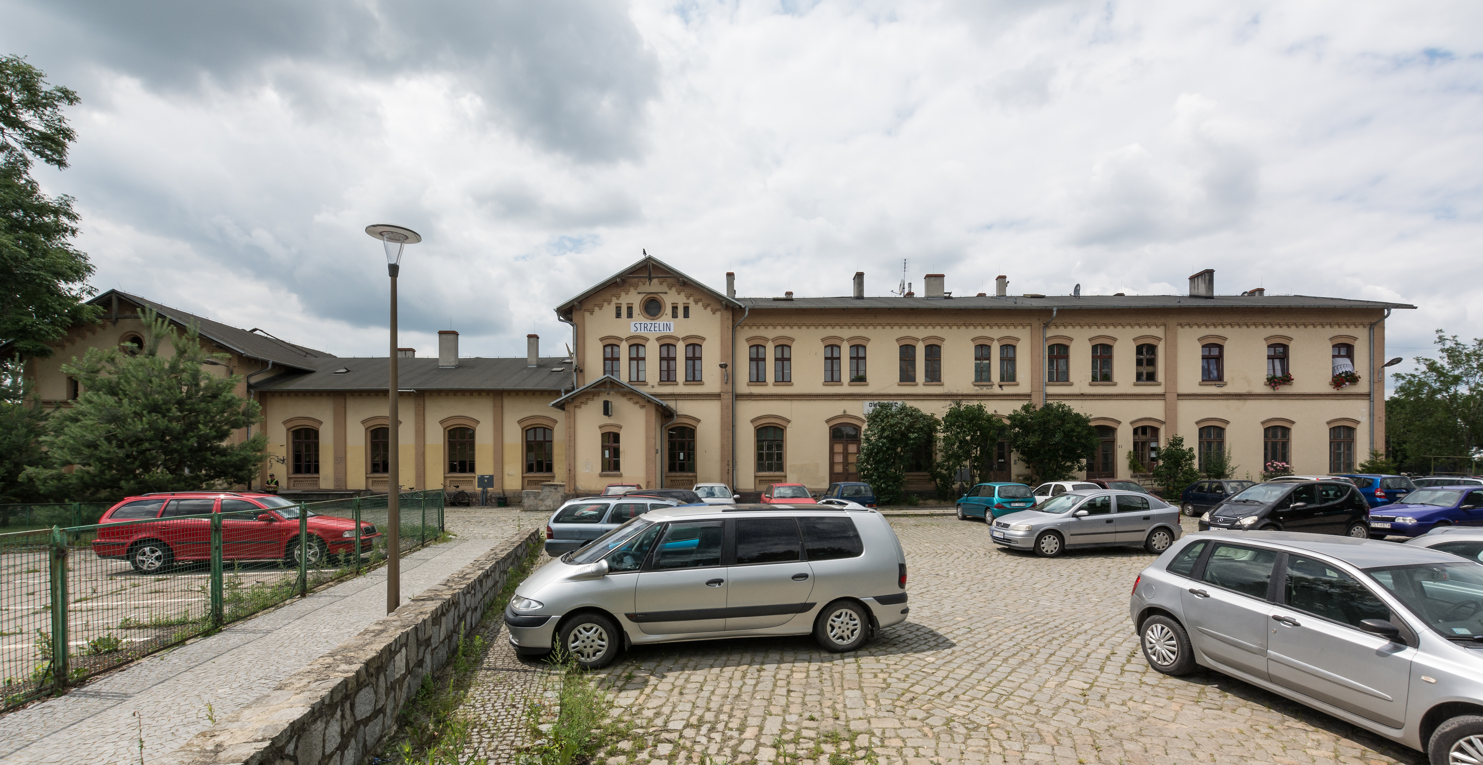 Train station in Strzelin